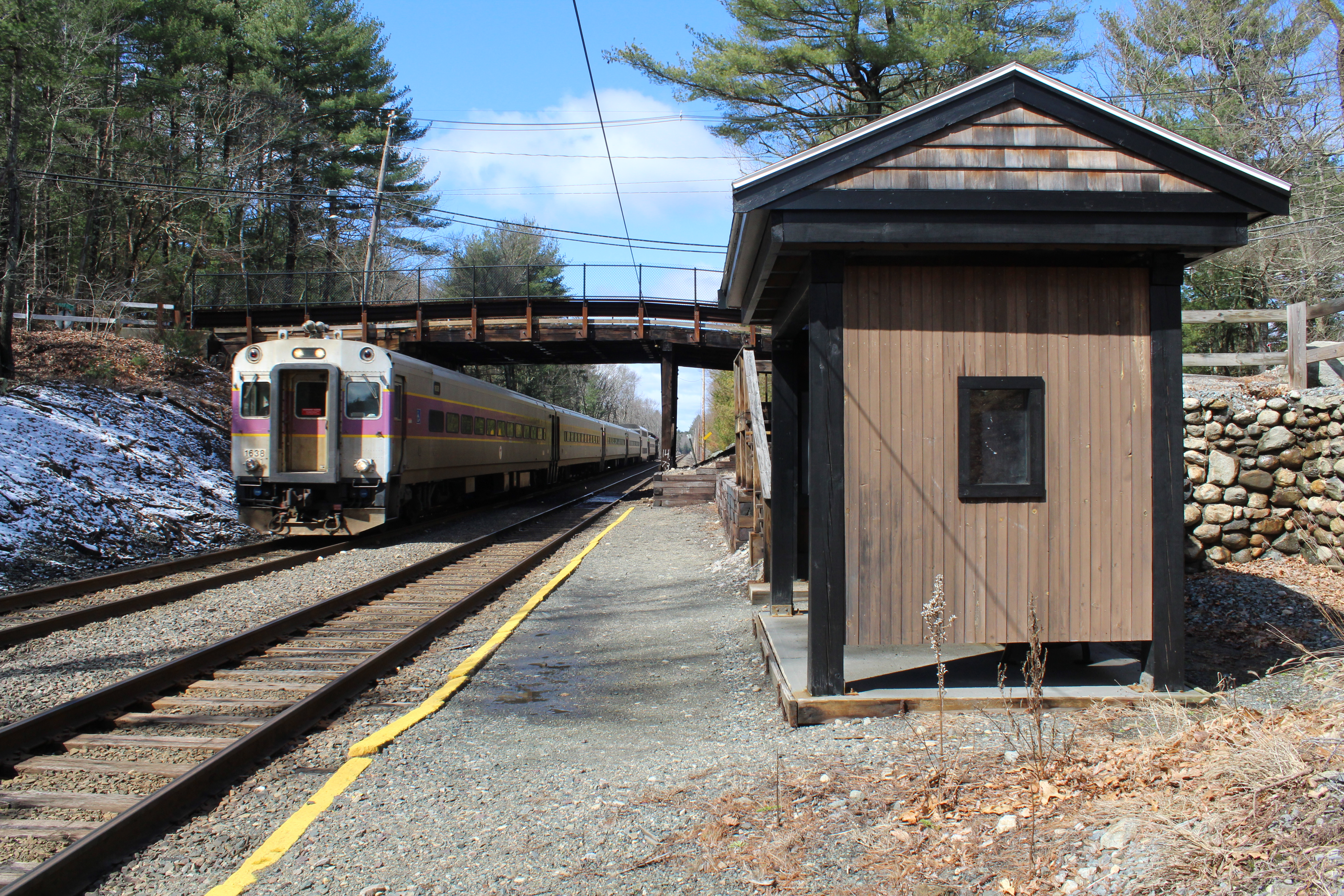 Fitchburg Line inbound train #1404 passes through Silver Hill station on March 24, 2020.